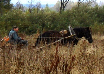 Horse in shaft bow harness with a harness saddle